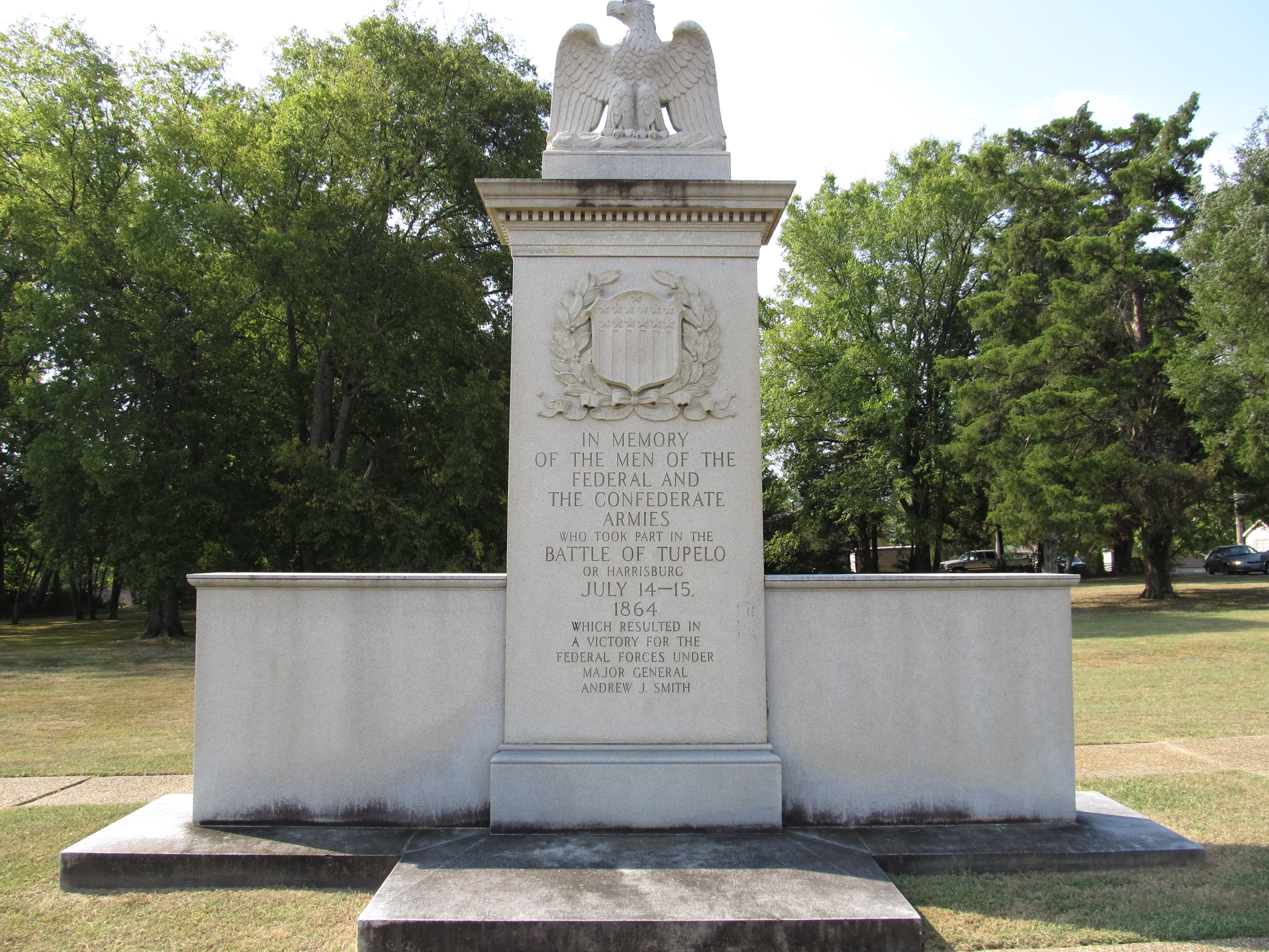 Tupelo National Battlefield, in Tupelo, Mississippi, commemorates the July 14–15, 1864, Battle of Tupelo in which Lieutenant General Nathan Bedford Forrest tried to cut the railroad supplying the Union's march on Atlanta. Established as Tupelo National Battlefield Site February 21, 1929; transferred from the War Department August 10, 1933; redesignated and boundary changed August 10, 1961. Listed on the National Register of Historic Places on October 15, 1966. Administered by the Natchez Trace Parkway.